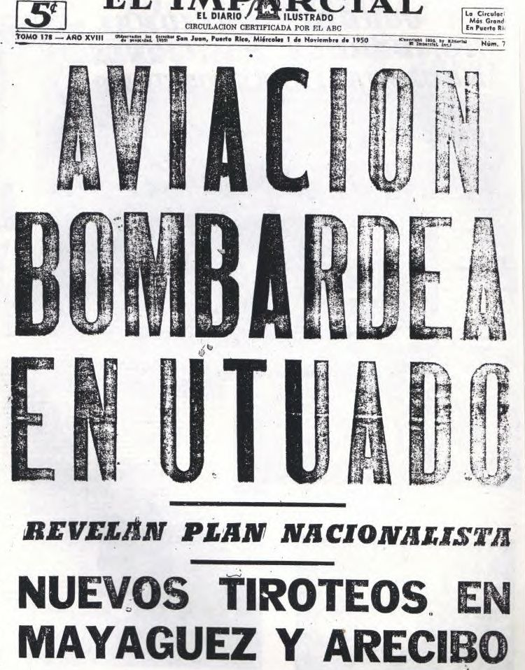 This is a picture of a copy of the November 1, 1950 edition of the newspaper "El Imparcial" of Puerto Rico whose headline states that the Puerto Rican City of Utuado was bombed by the US Air Forces during the historic Nationalists revolts of Oct. 30, 1950. In accordance to the "Copyright Term and the Public Domain in the United States, 1 January 2009" [1] Images published with notice but copyright was not renewed from 1923 through 1963 are public domain due to copyright expiration. "El Imparcial" which went out of service 35 years ago, could not have renewed it's copyright which expired. Therefore, since Puerto Rico fell under US copyright in 1950 as well as today, this would make the image public domain.